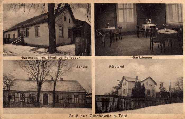 Postcard of Ciochowice 1932